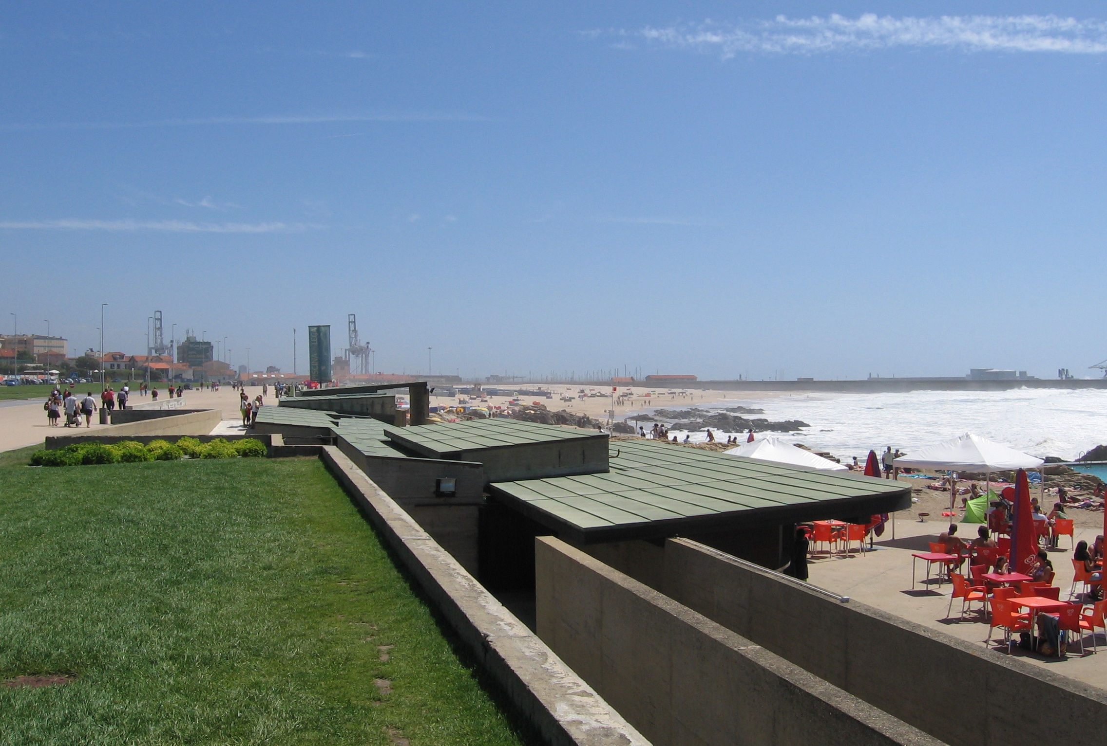 This photograph shows the roofs of the facilities of the swimming pool on the Beach at Leça da Palmeira, covered with green patinated copper. This project was designed by Álvaro Siza Vieria, 1959-73. The green copper cover was added to the previously black roofs during a renovation of the buildings in the 1990ies.